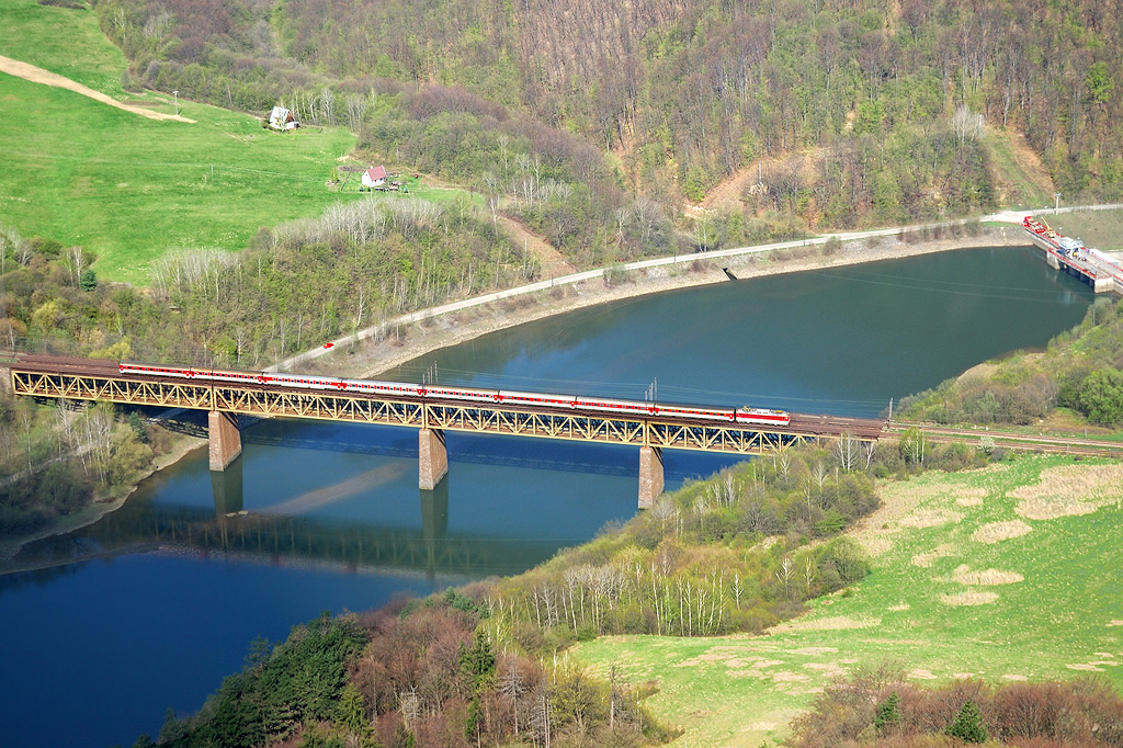 View at Ružínsky viadukt with locomotive ZSSK 362.012 from Holice – Bokšova